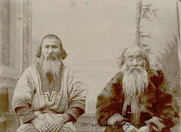 Portrait of two Ainu old men from Sakhalin. Left from West, Right from East.